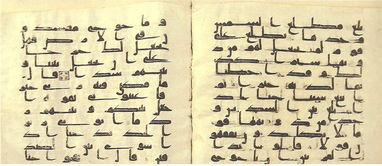 Surah Kahf and The Story of Gog and Magog